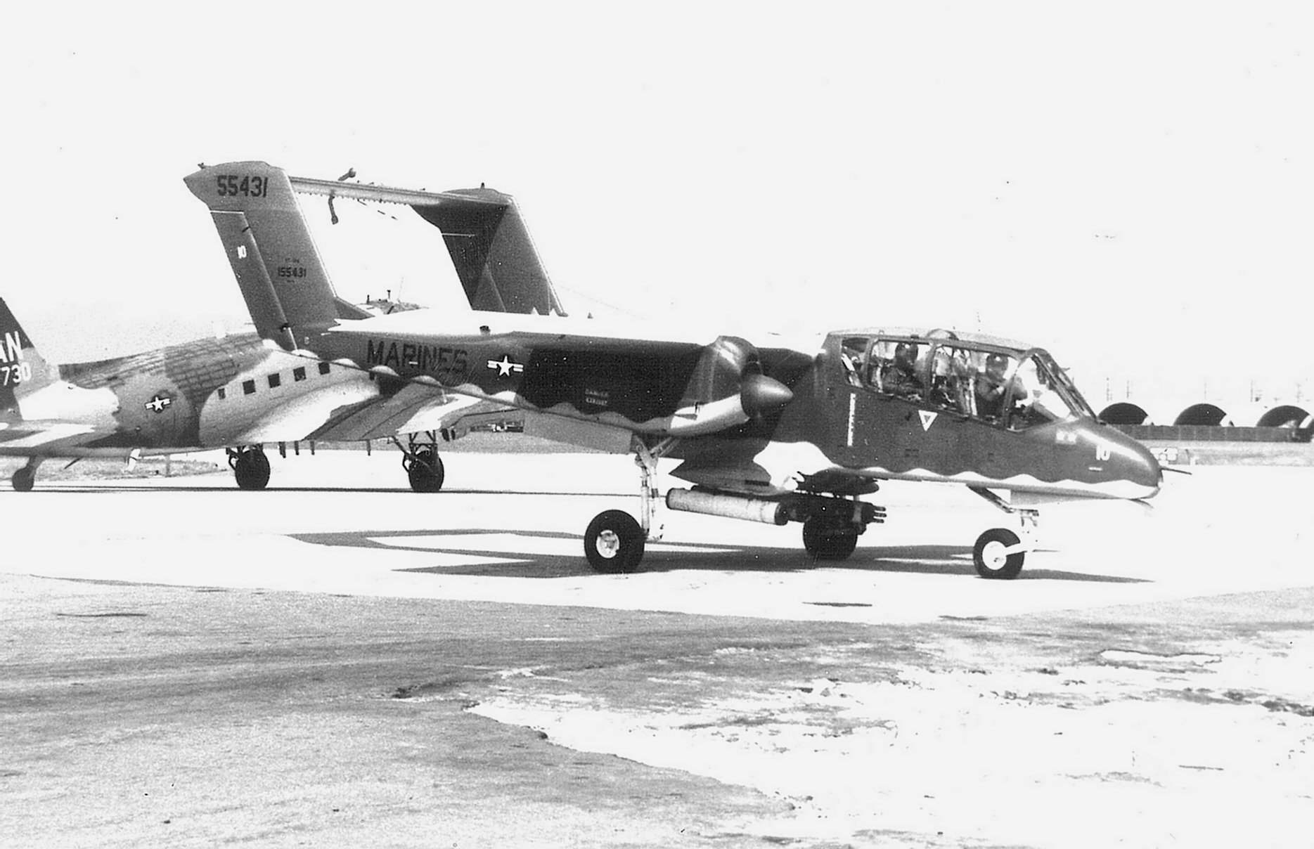 A U.S. Marine Corps North American OV-10A Bronco (BuNo 155431) from Marine Observation Squadron VMO-2 at Da Nang, Vietnam, circa in 1970. In the background is a U.S. Air Force Douglas EC-47Q (s/n 43-30730) from the 362nd Tactical Electronic Warfare Squadron.